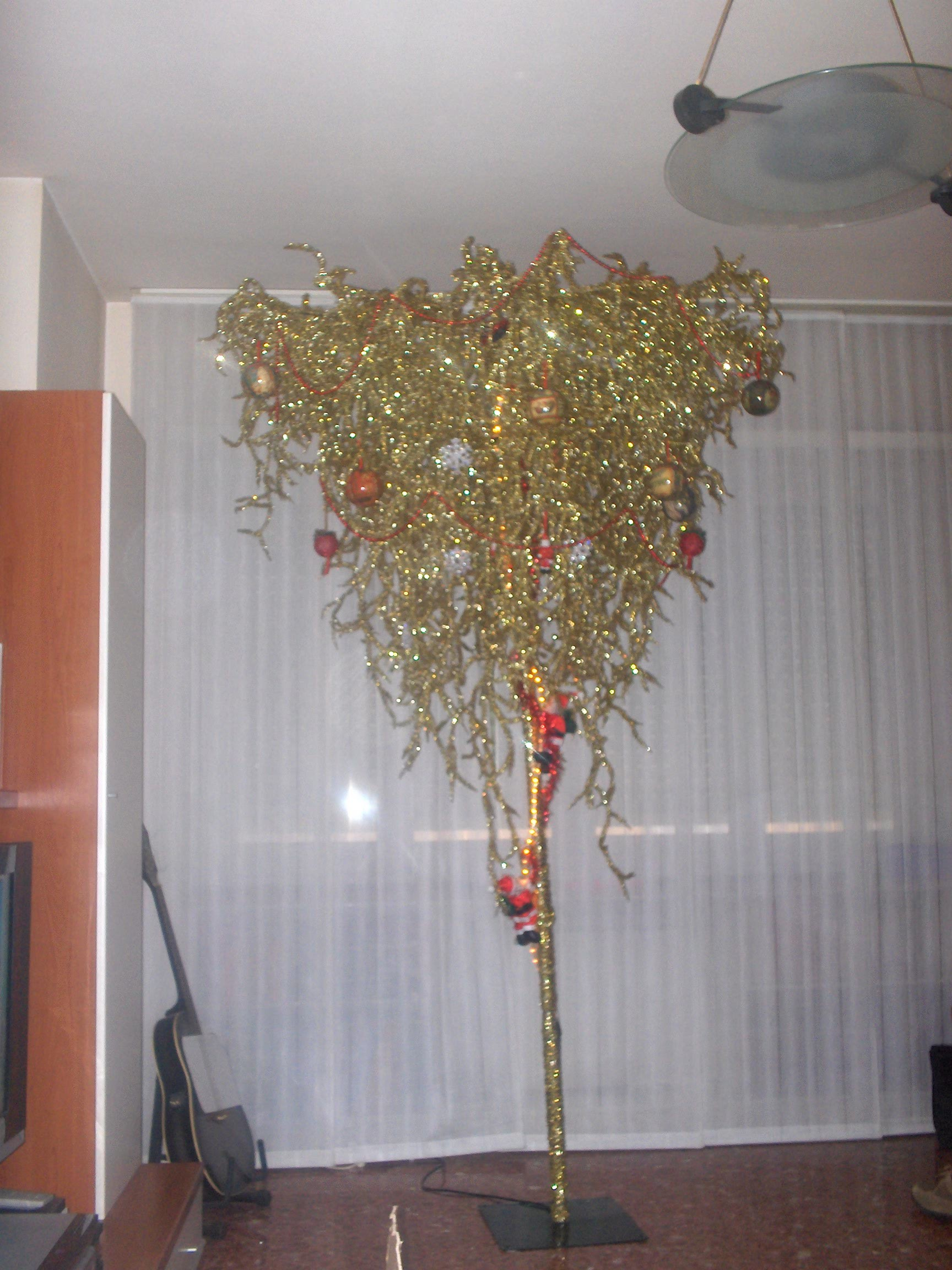 Christmas tree decorated with lights and other things.